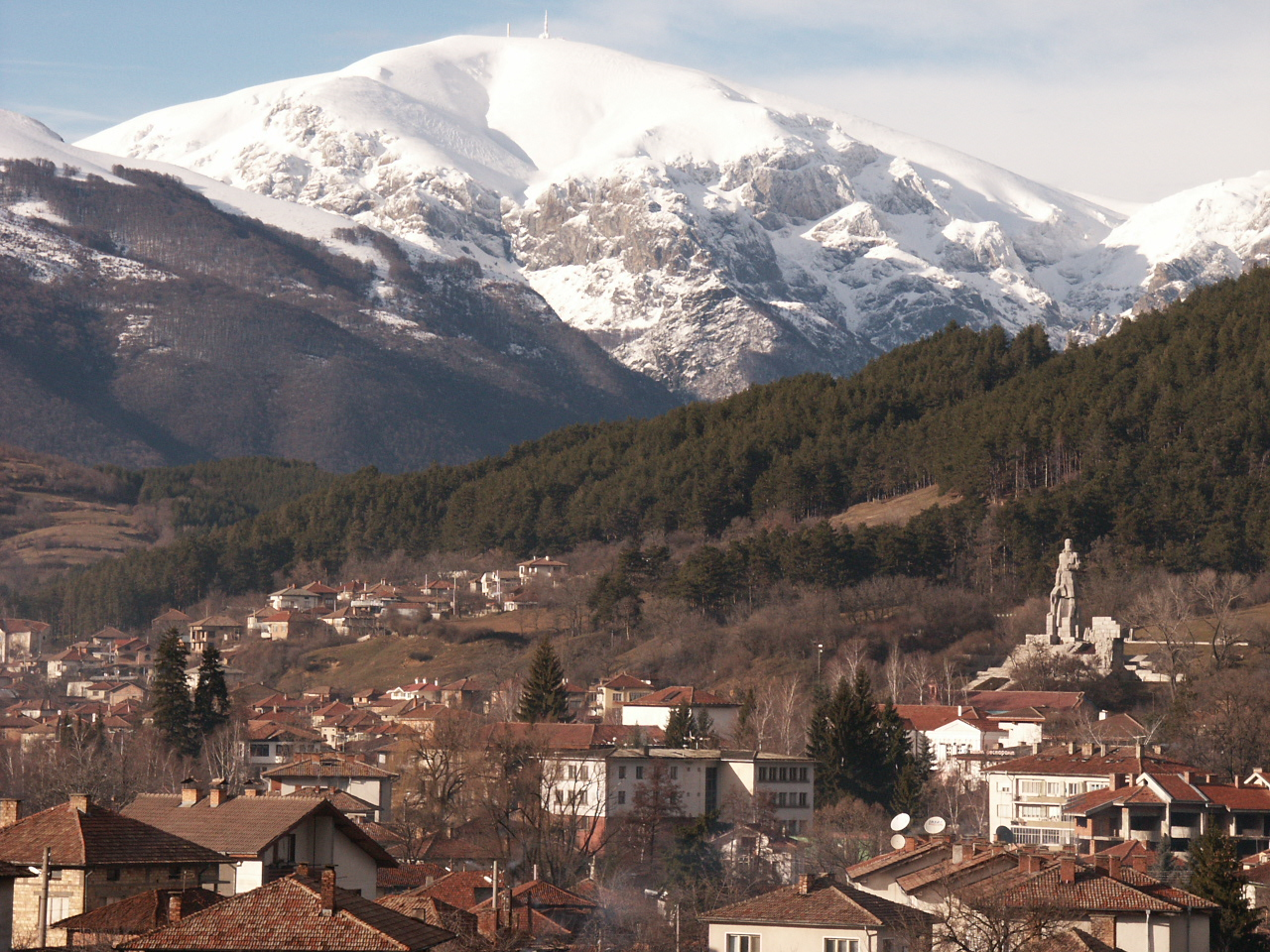 Kalofer